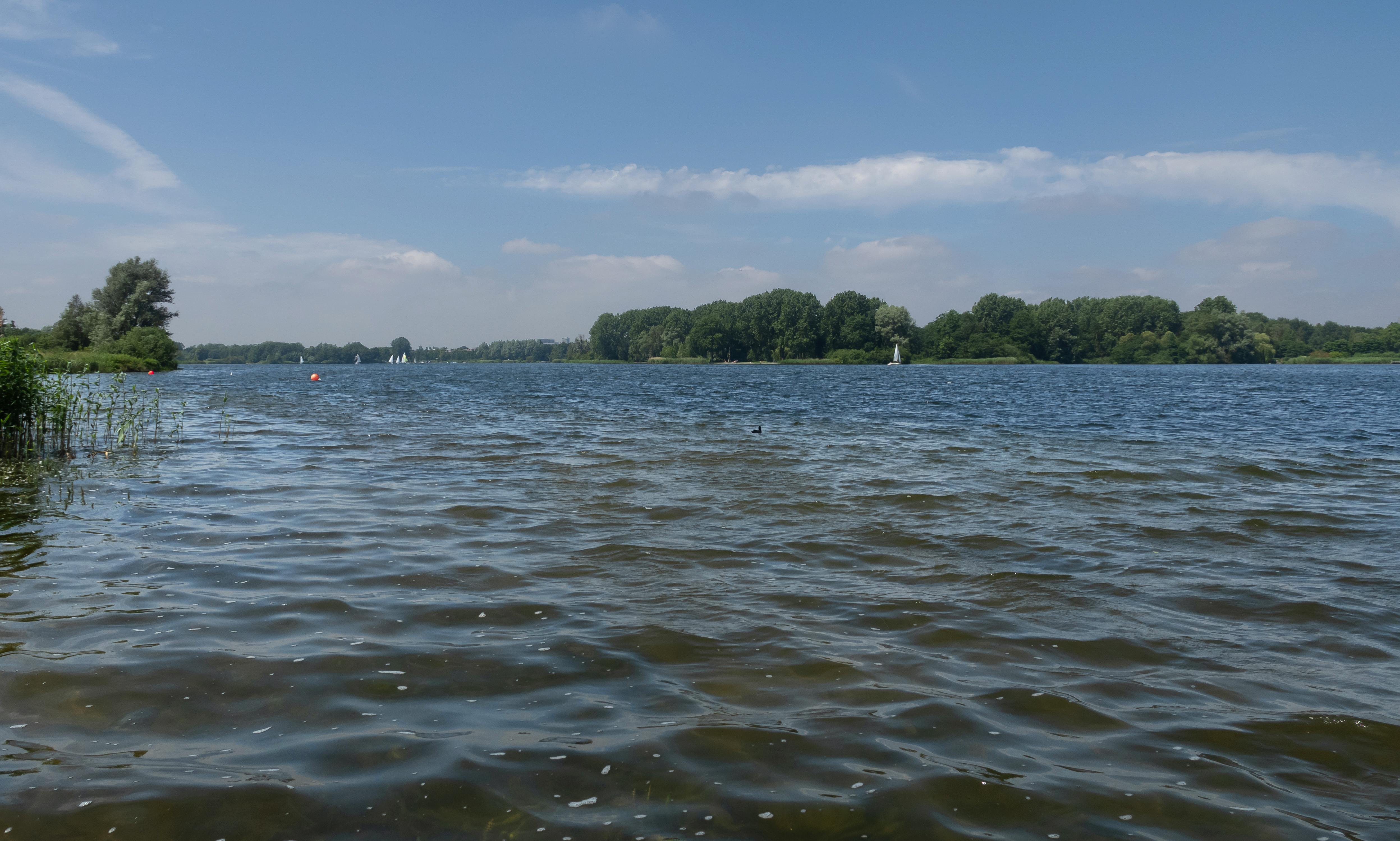 Amsterdam Zuidoost, city lake: de Gaasperplas